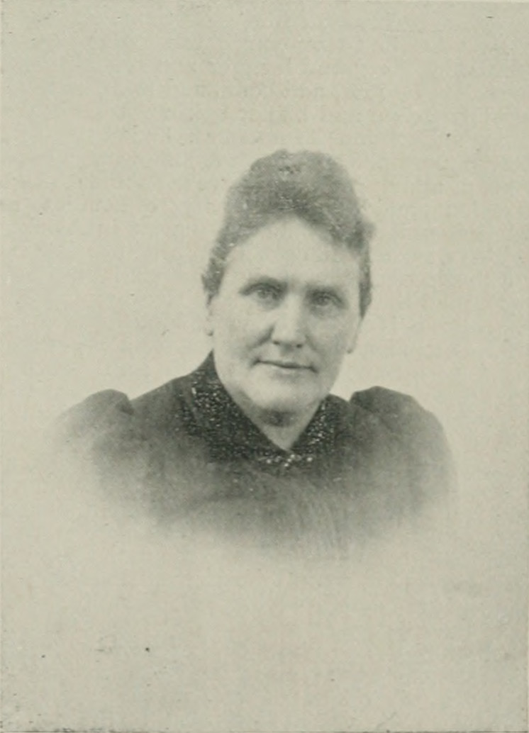 image from File:A woman of the century.djvu published 1893